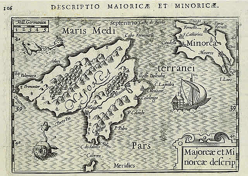 Map of Petrus Bertius (1602), showing the Balearic Islands